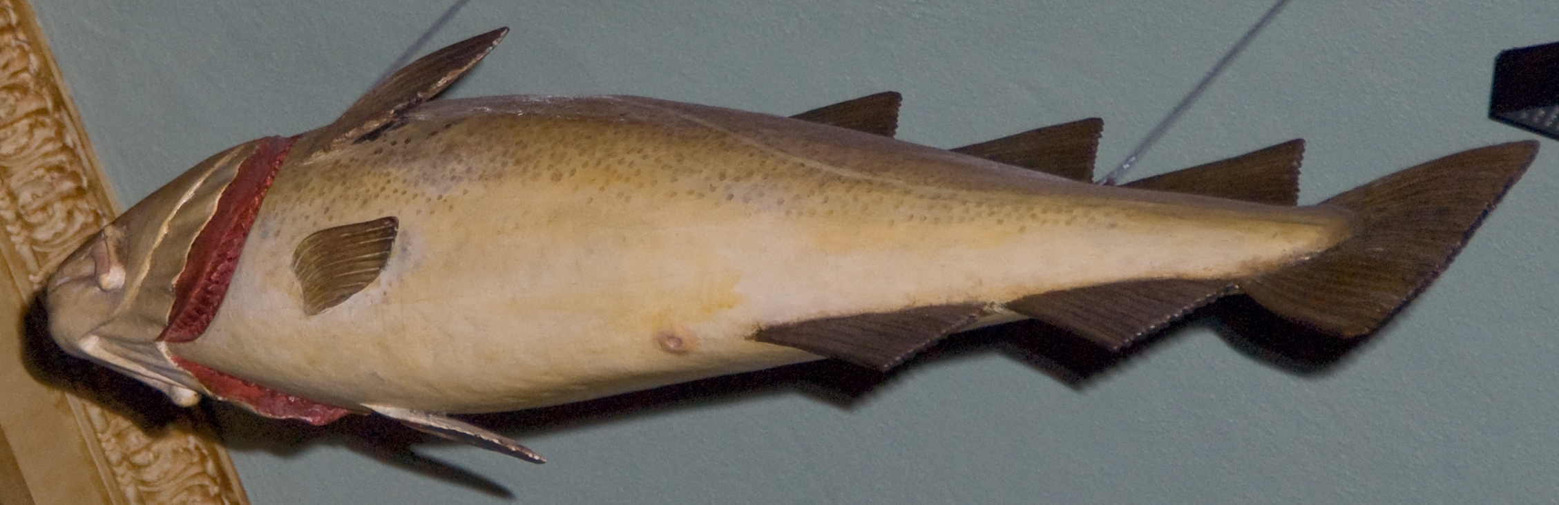 The Sacred Cod of Massachusetts